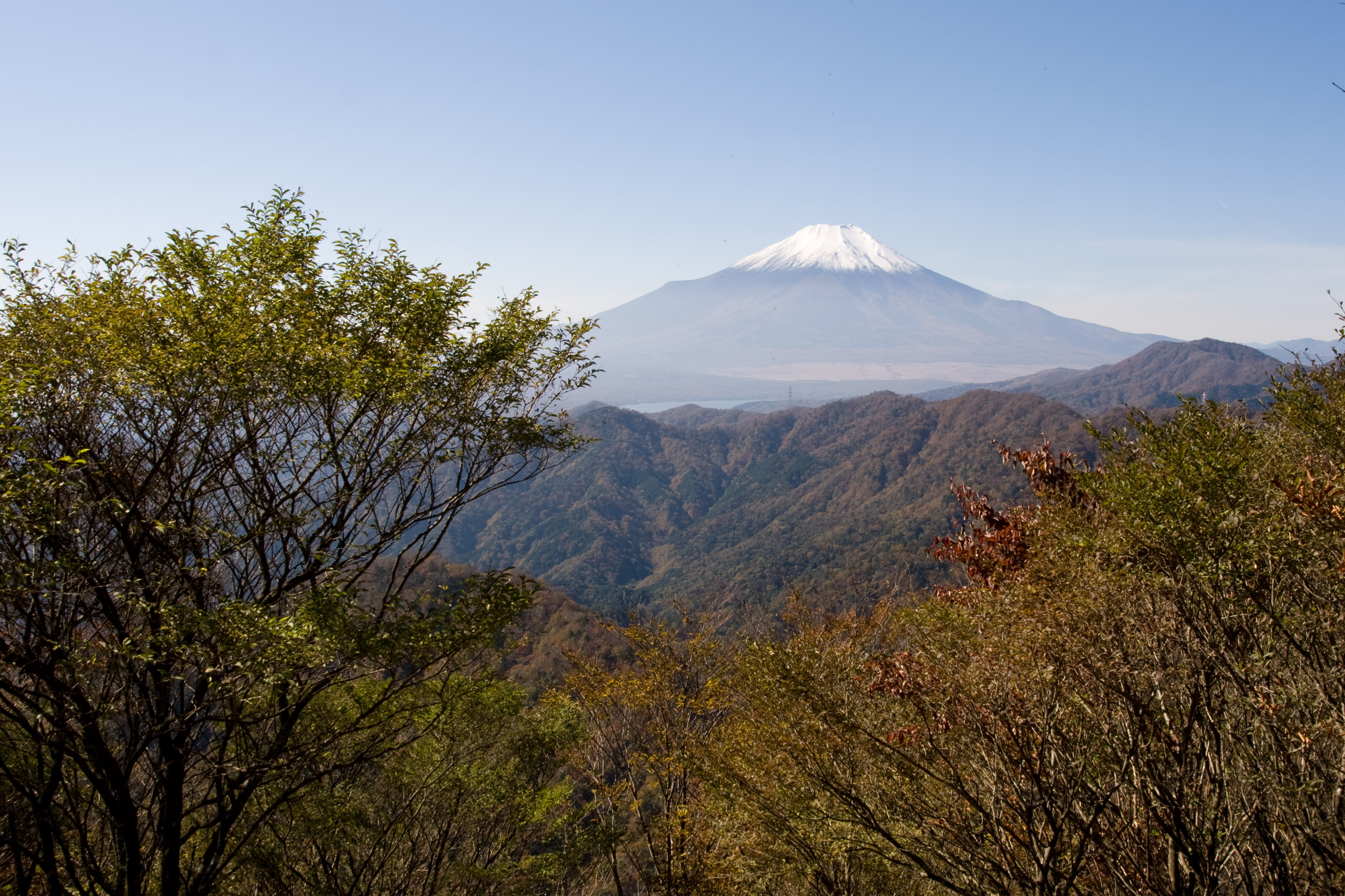 Mt.Fuji as seen from Mt.Komotsurushi, Kanagawa and Yamanashi Prefectures, Japan.